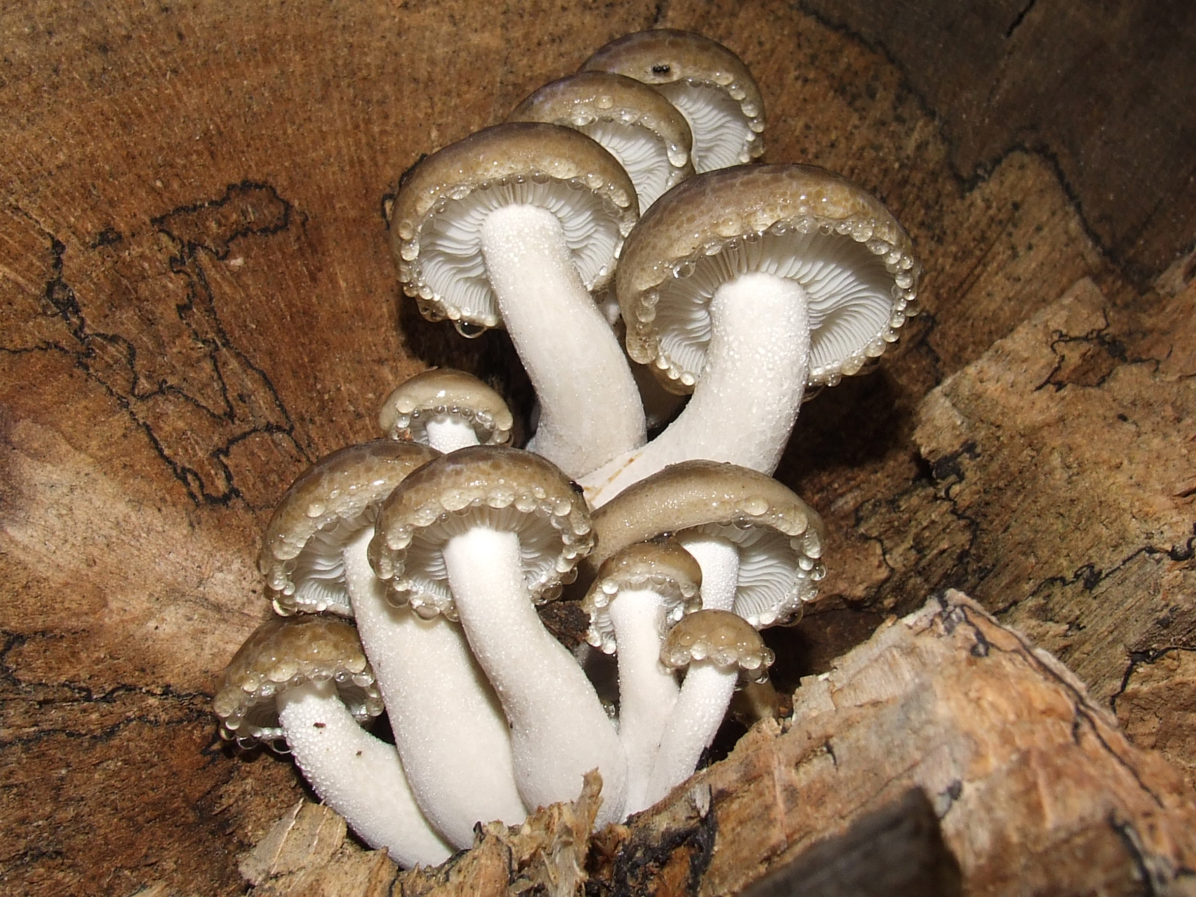 Hypsizygus ulmarius in the Visegrád Mountains (Hungary)